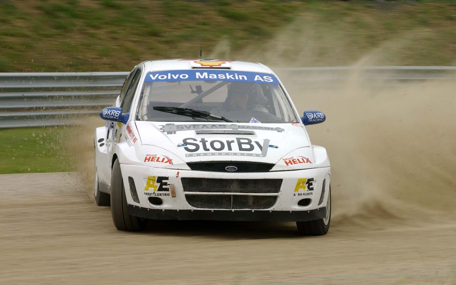 Norwegian Sverre Isachsen and his 500+bhp Ford Focus T16 4x4 during the 2004 European Rallycross championship round in Austria (13.06.2004). Camera information: Nikon D1H f/13,0 155mm 1/200s 10. Jun. 2004, 10:50 Uhr